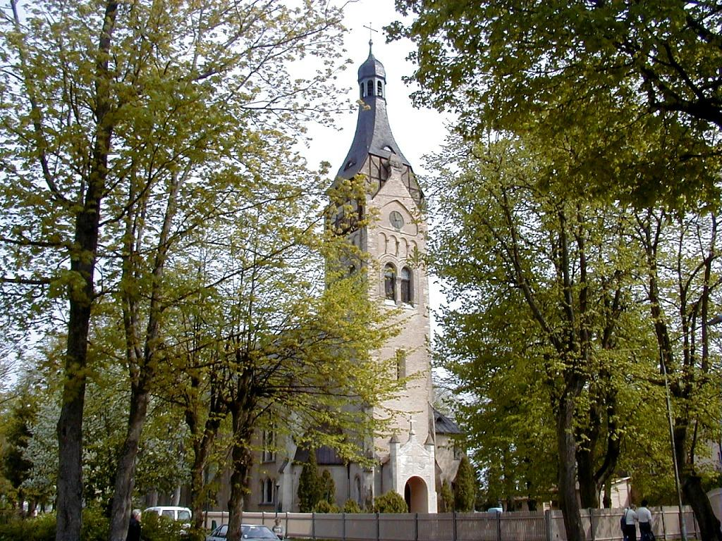 Jūrmala, Dubulti lutheran church